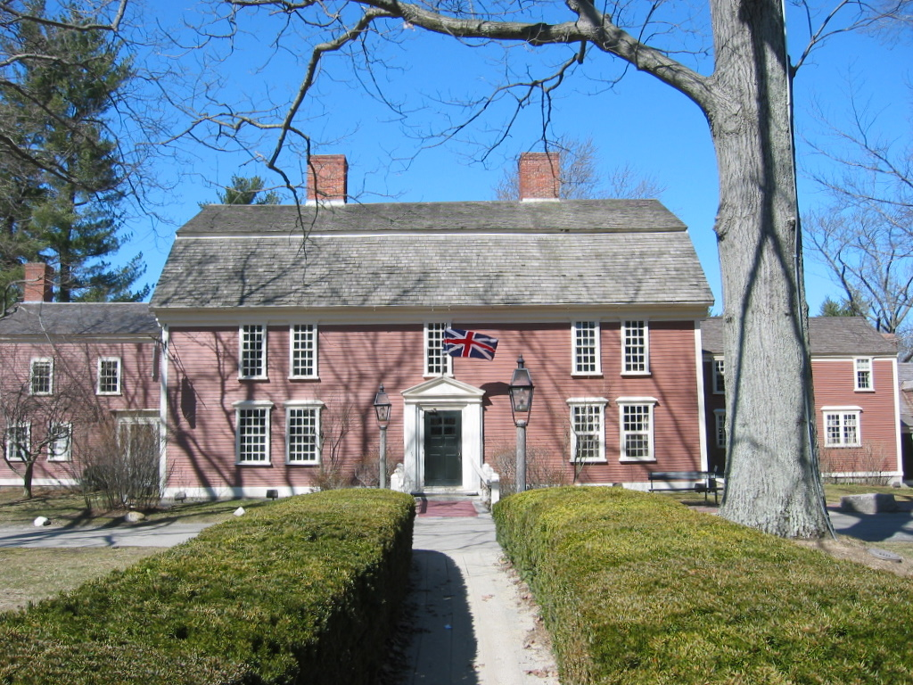 Taken by Dudesleeper.